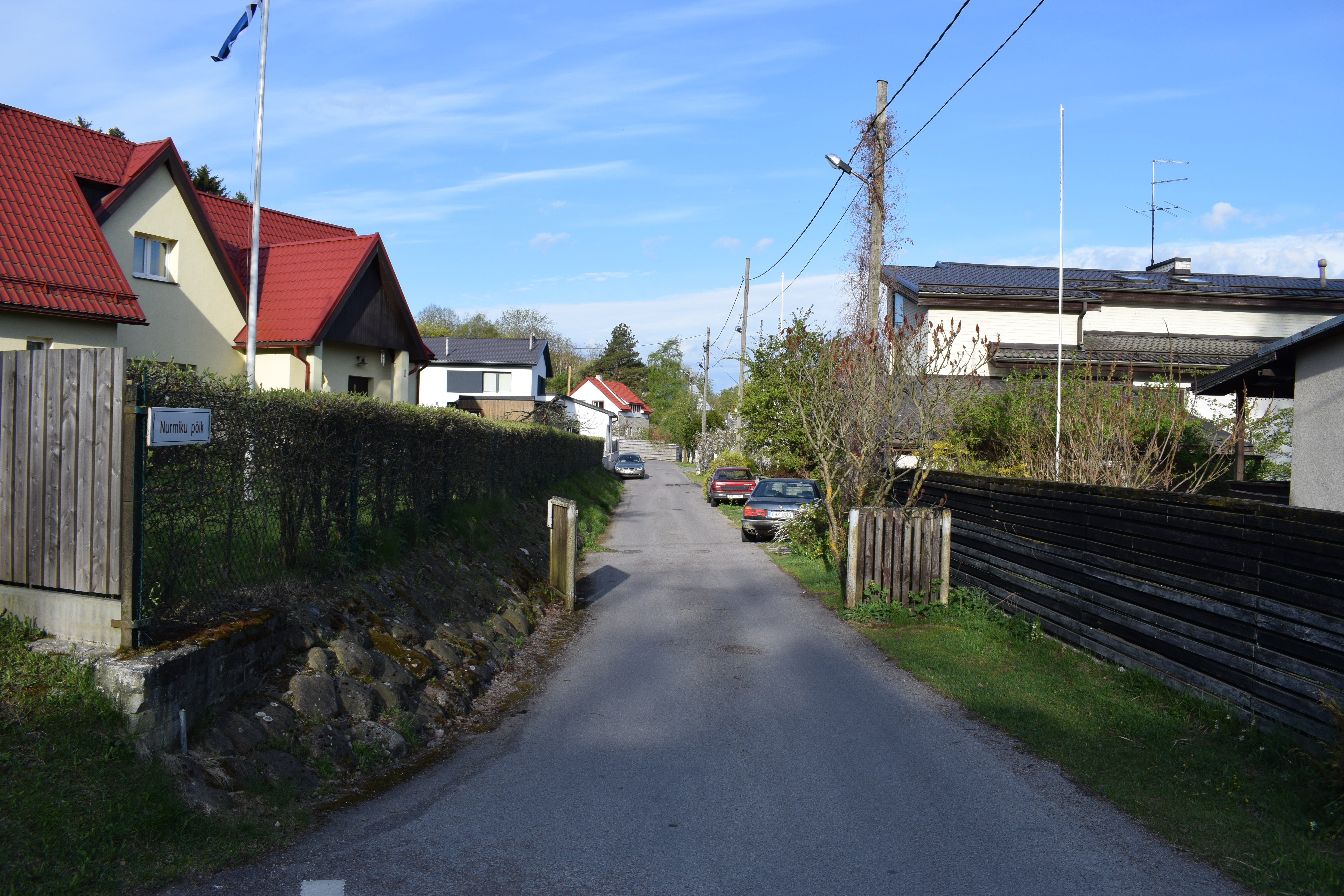 Nurmiku põik